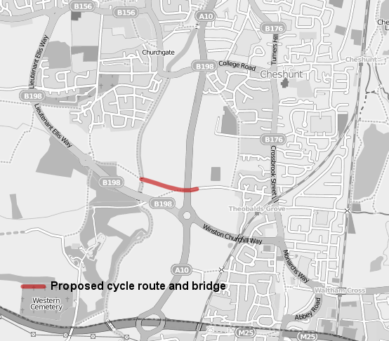 A map displaying the route, in red, of the proposed Cheshunt cycle link route and new bridge over the A10. Overlaid on OpenStreetMap data.